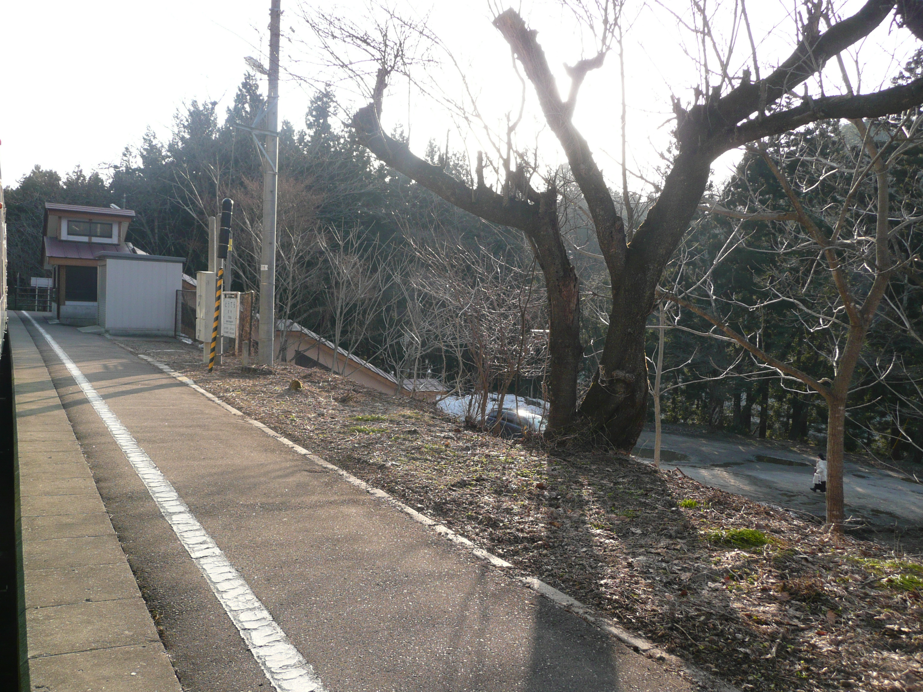 Tōdera Station, Aizubange, Kawanuma District, Fukushima, Japan